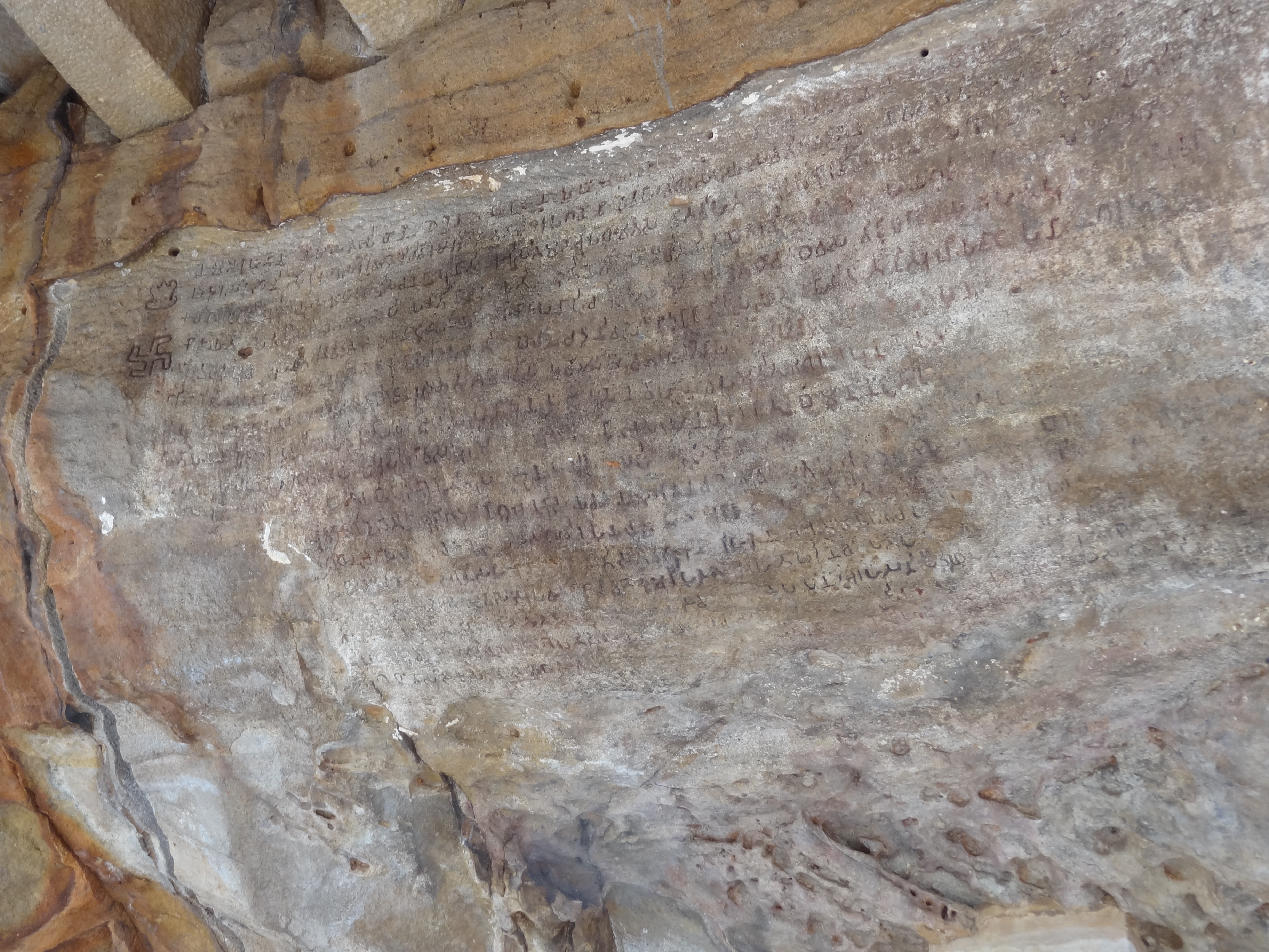 Bhrami Script in Udaigiri hill, Bhubaneswar